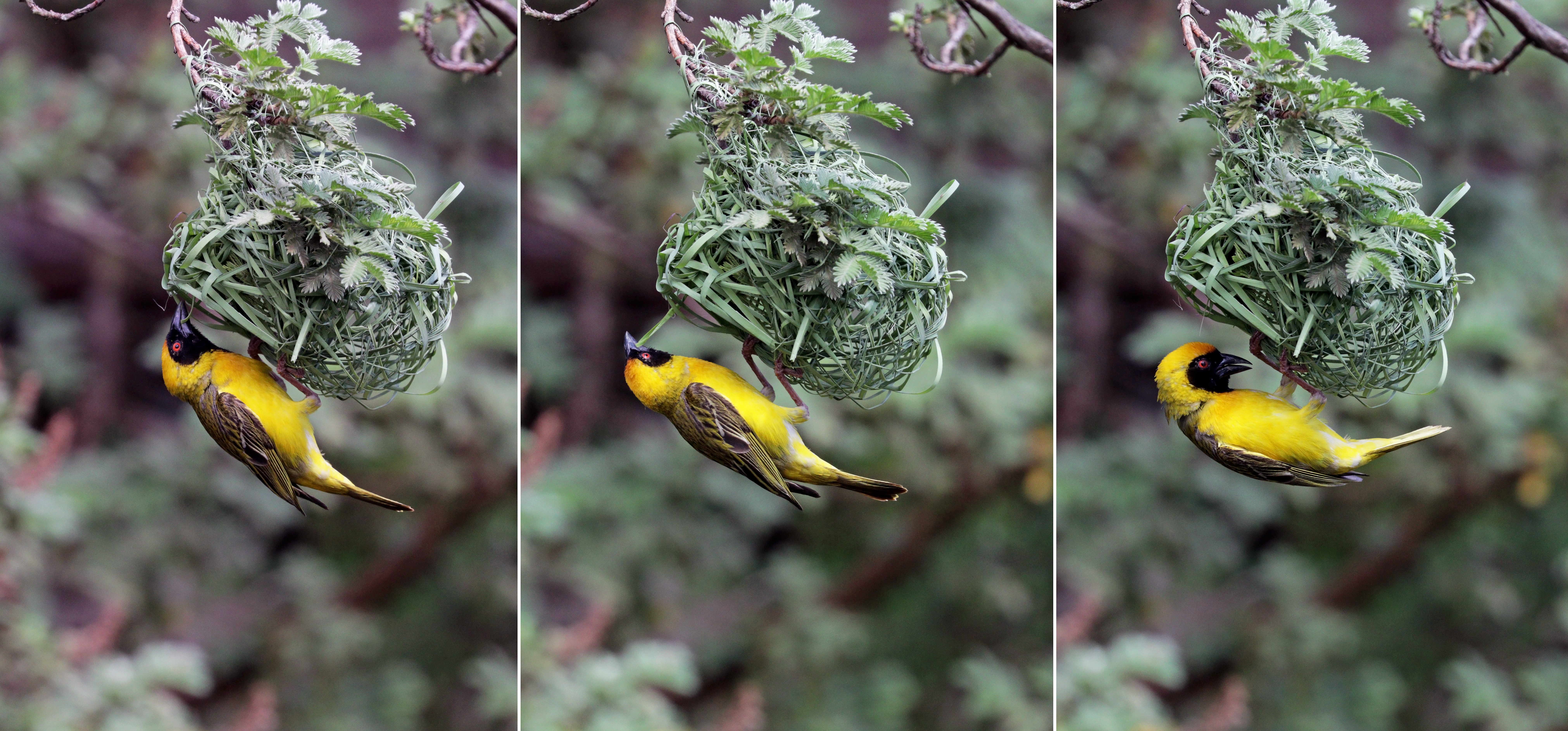 Ploceus velatus) male building nest, Walter Sisulu Botanical Gardens, Roodepoort, South Africa. (composite of three images)